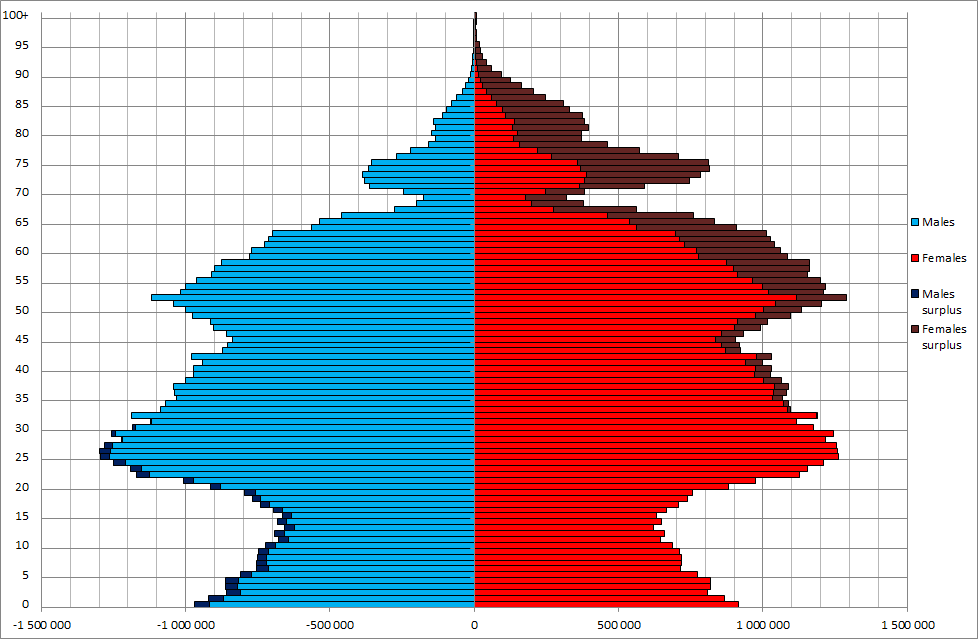 Population pyramid of Russia as of 1 January 2014